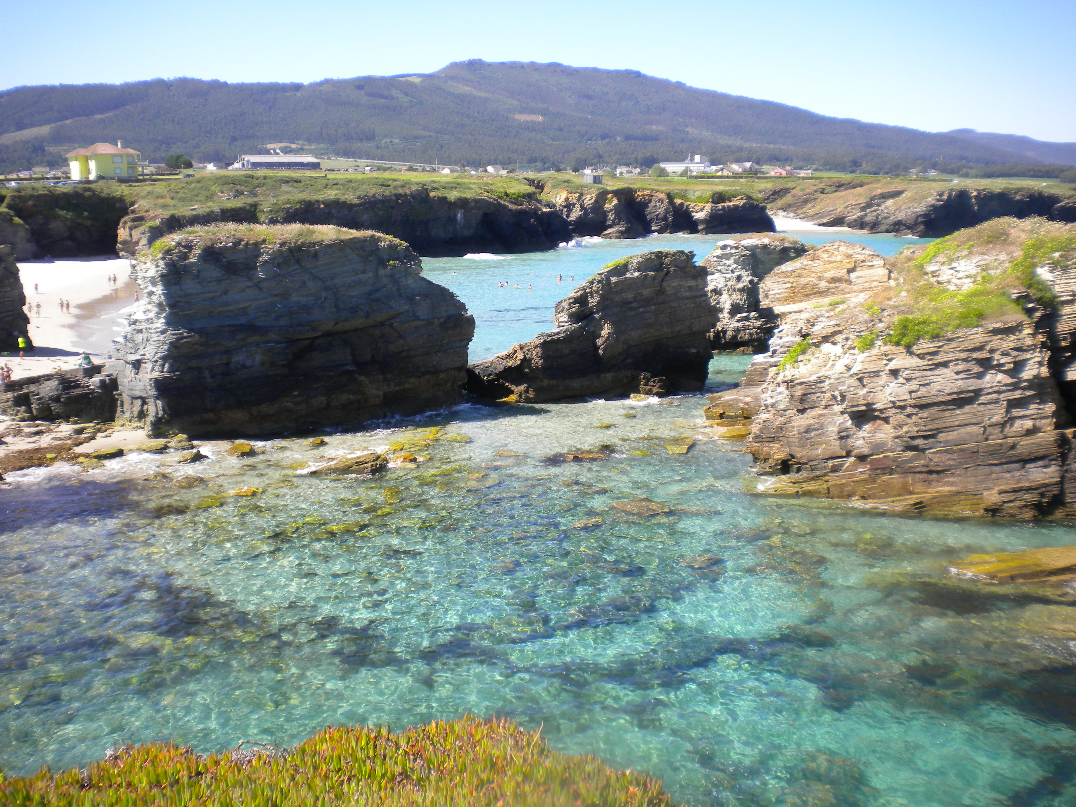 As Illas beach, Ribadeo, Spain.